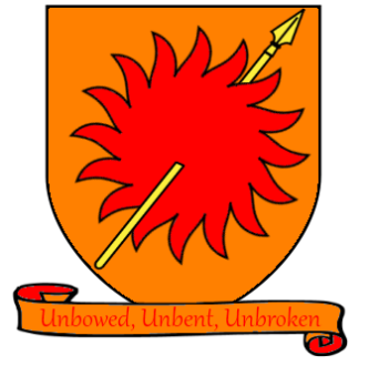 A fictional coat of arms. The coat of arms of House Martell. Shows a red sun pierced by a gold spear on a field of orange. Underneath is a scroll bearing a motto: Unbowed, Unbent, Unbroken. The following Commons images were used to create this image: File:Old French Escutcheon.svg by Masur (talk · contribs) File:Coat-elements-2.png by Qyd (talk · contribs) (scroll on bottom) File:Coa Illustration Elements Planet Sun.svg by Madboy74 (talk · contribs) File:Héraldique meuble Pique.svg by Zigeuner (talk · contribs)